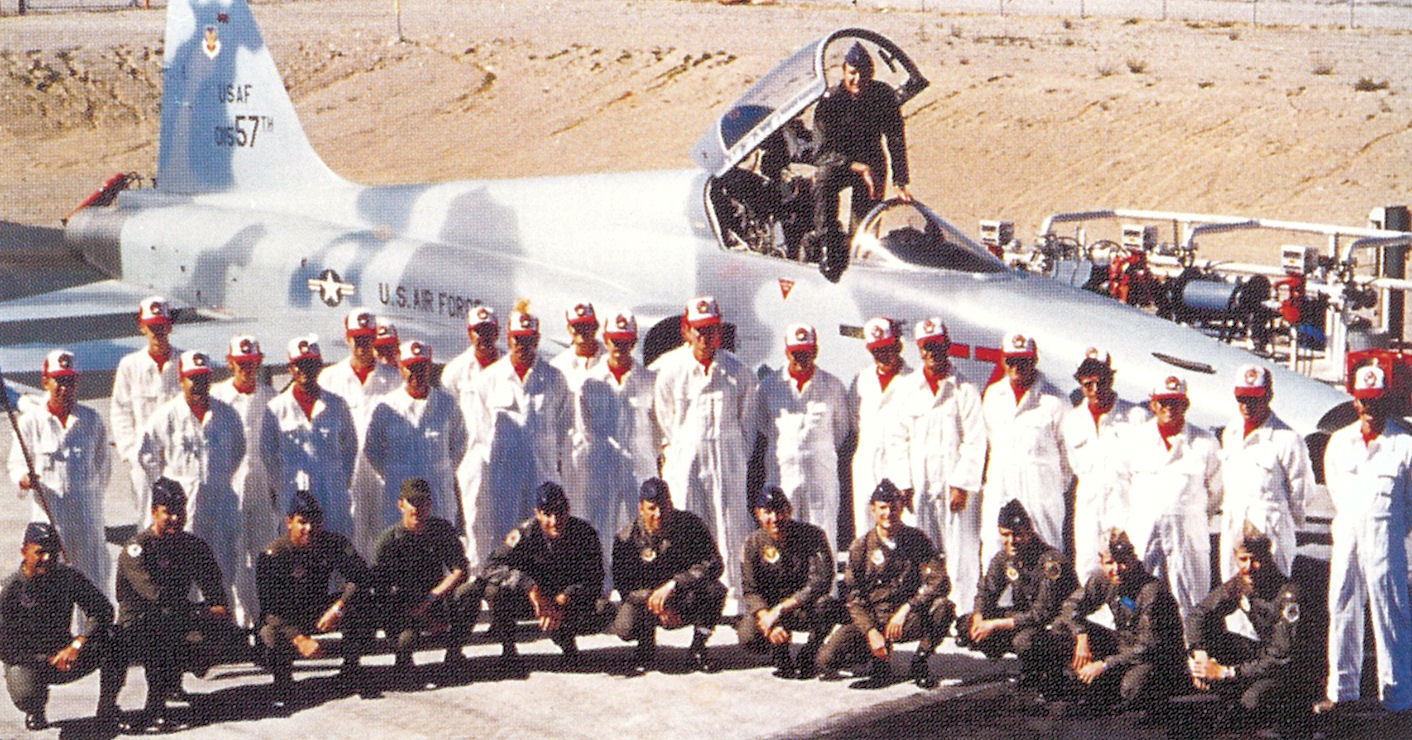 4477th Test and Evaluation Squadron Personnel